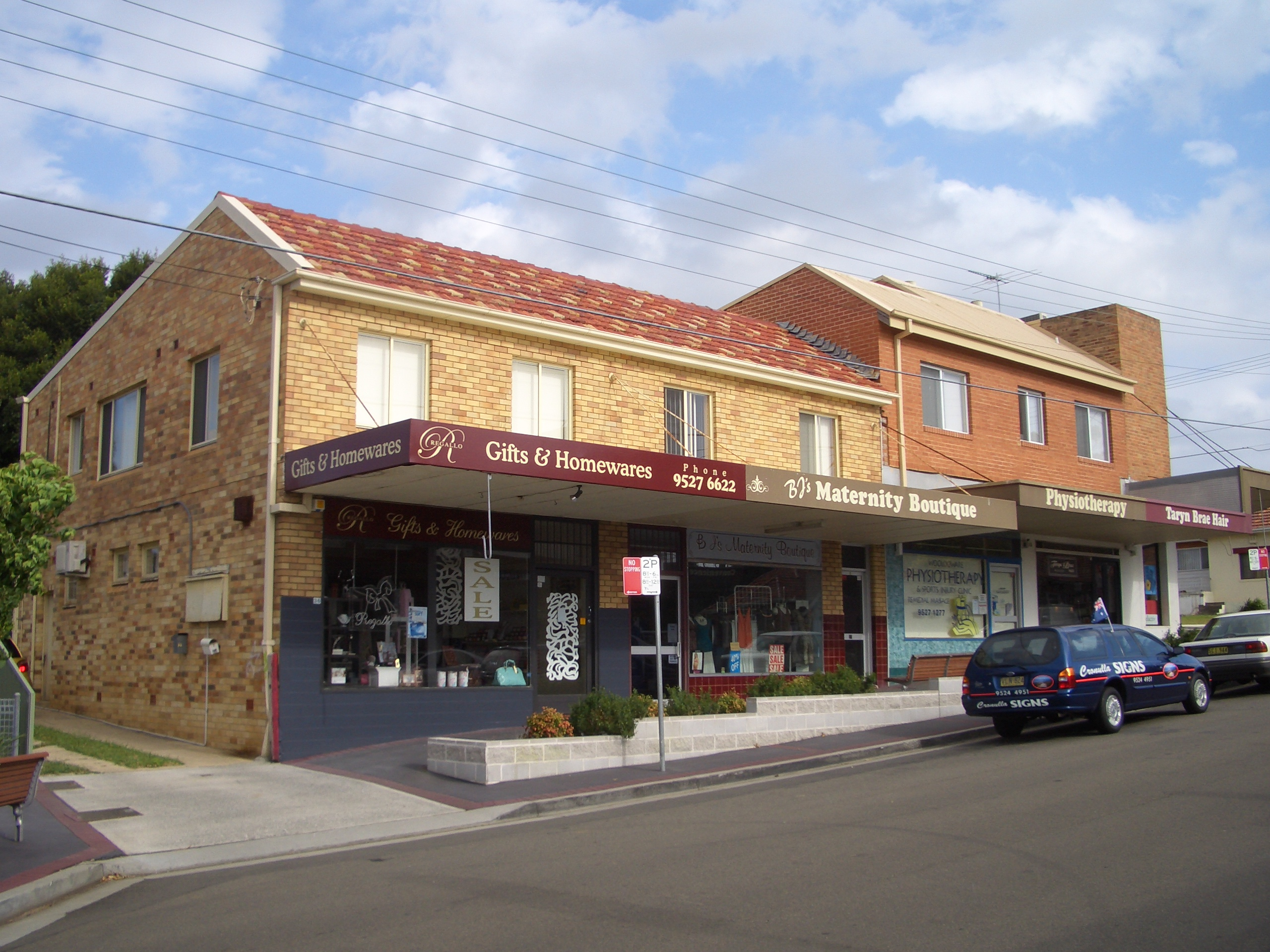 Woolooware shops